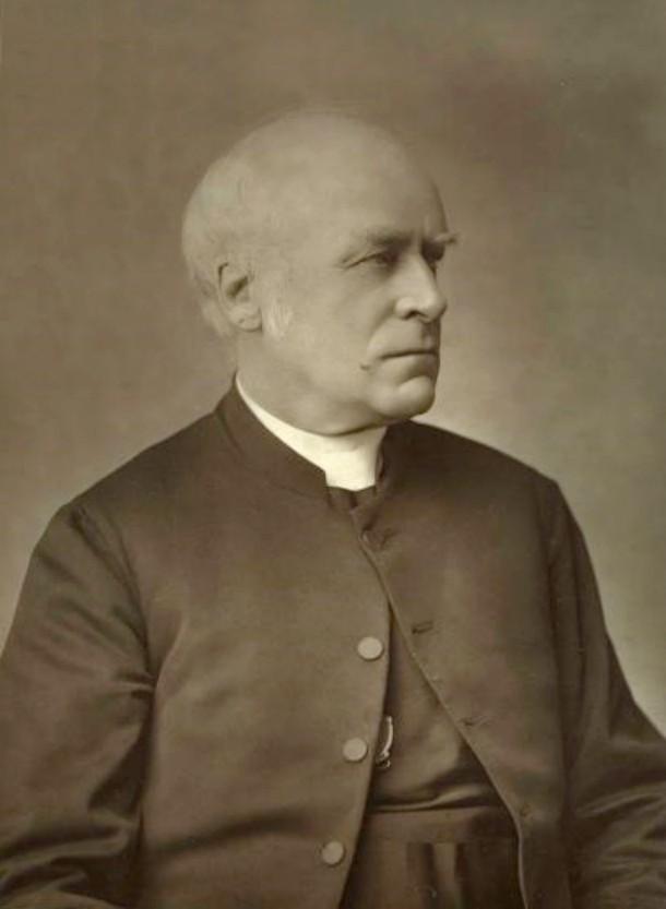 Portrait of Revd. James Moorhouse (1826-1915), Anglican bishop of Melbourne and of Manchester